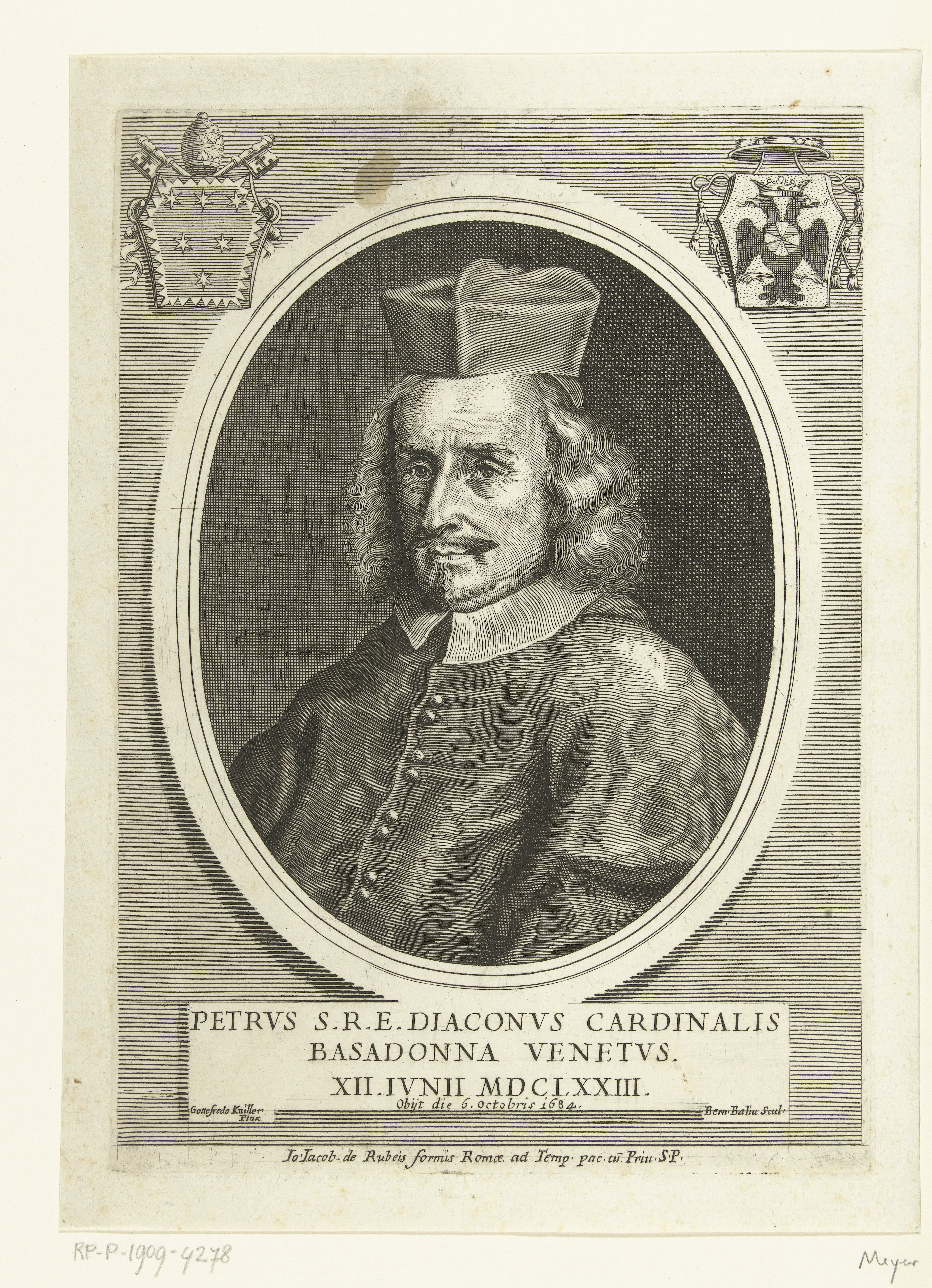 Portrait of Pietro Cardinal Basadonna (Venice, 1617 - Rome, 1684)